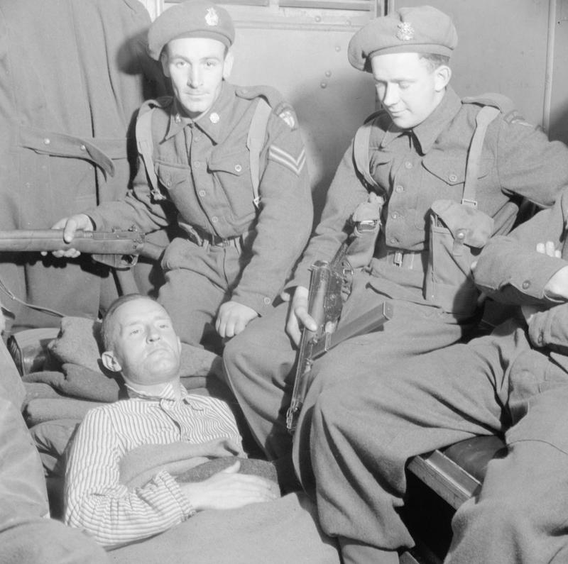 The Arrest of William Joyce ("lord Haw Haw") in Germany, May 1945 Fascist politician and Nazi propaganda broadcaster William Joyce, known as Lord Haw Haw, lies in an ambulance after his arrest by British officers at Flensburg, Germany, on 29 May 1945. He was shot during the arrest.